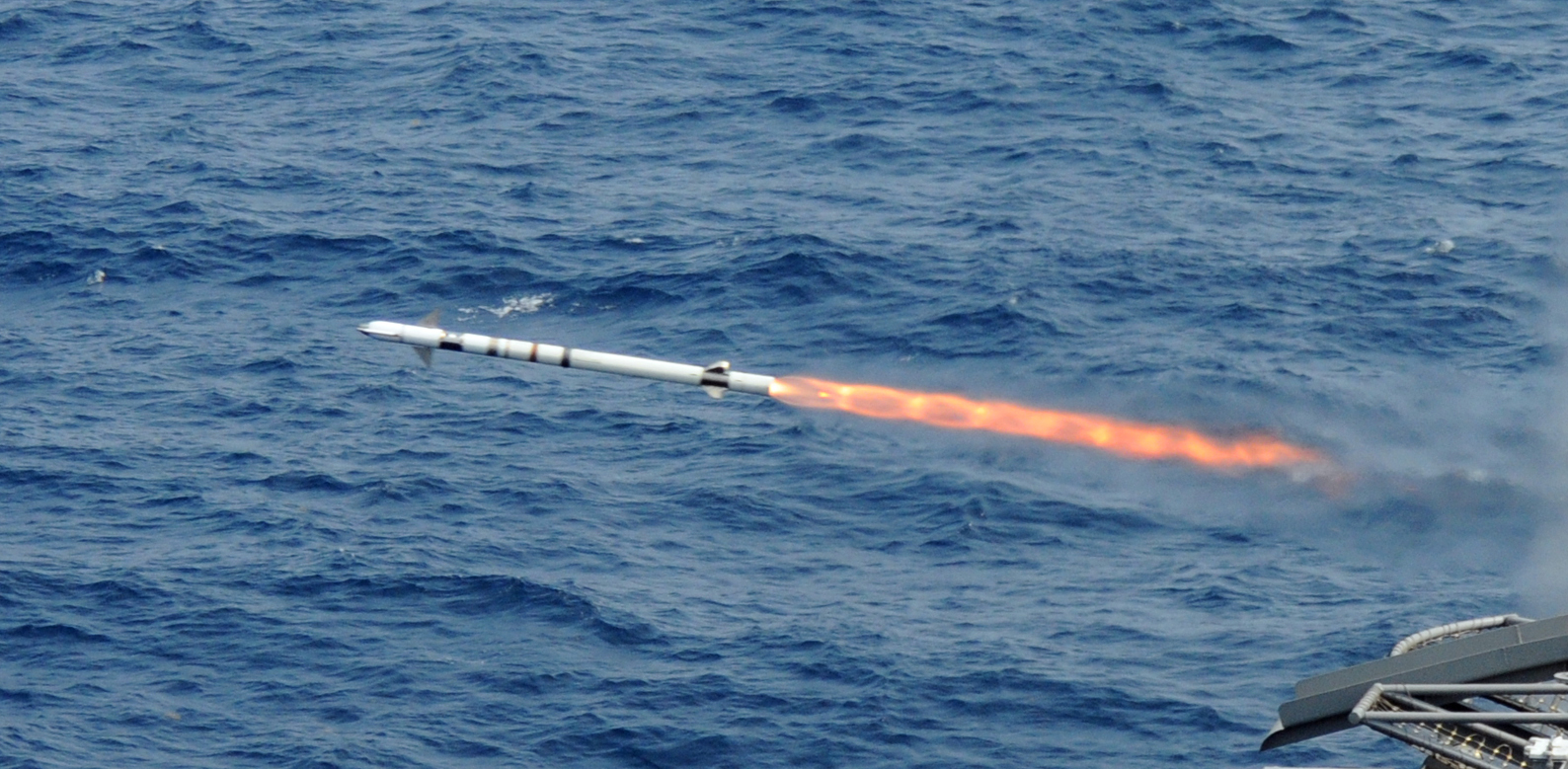 ATLANTIC OCEAN (June 23, 2010) A Rolling Airframe Missile (RAM) is launched from the aircraft carrier USS George H.W. Bush (CVN 77). George H.W. Bush completed its first-ever missile launch while underway conducting combat systems ship qualification trials. (U.S. Navy photo by Mass Communication Specialist Seaman Leonard Adams/Released)